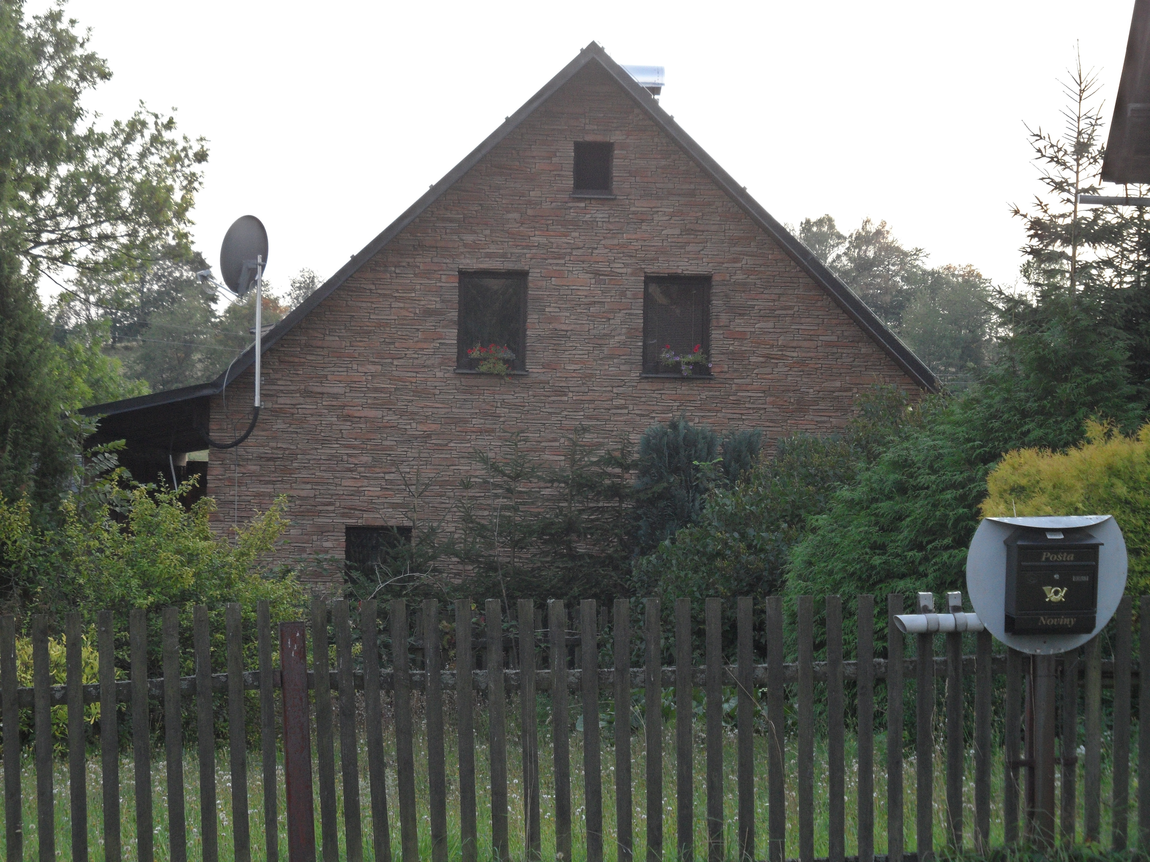 Lužná (Kopřivná): Family House. Šumperk District, the Czech Republic